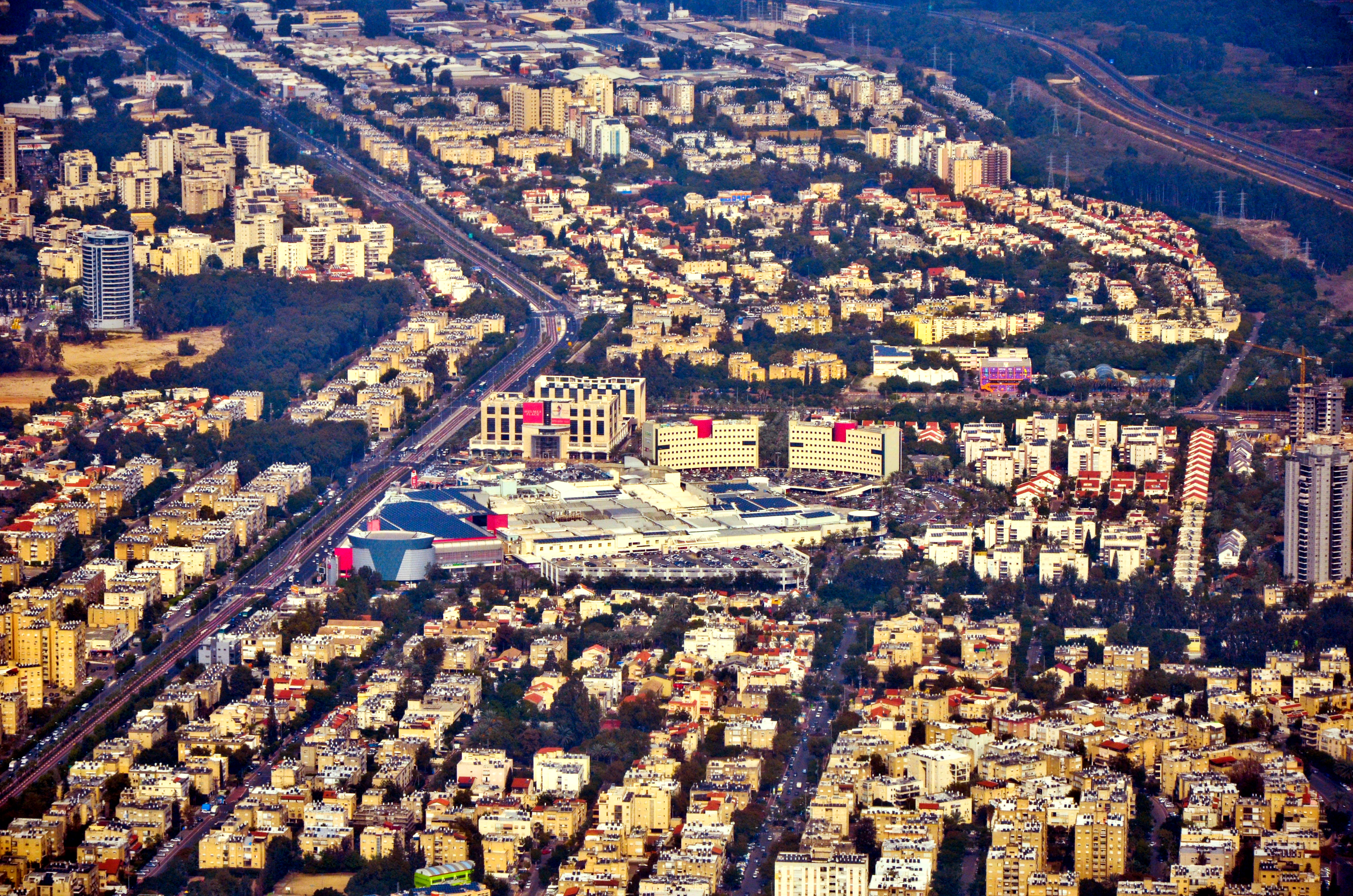 Kiryat Bialik - aerial view. At the center of the picture, the Kiryon shopping center. Shot taken from plane flown by Ilan Maytal